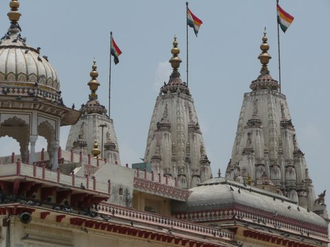 Mahaveer Ji Temple